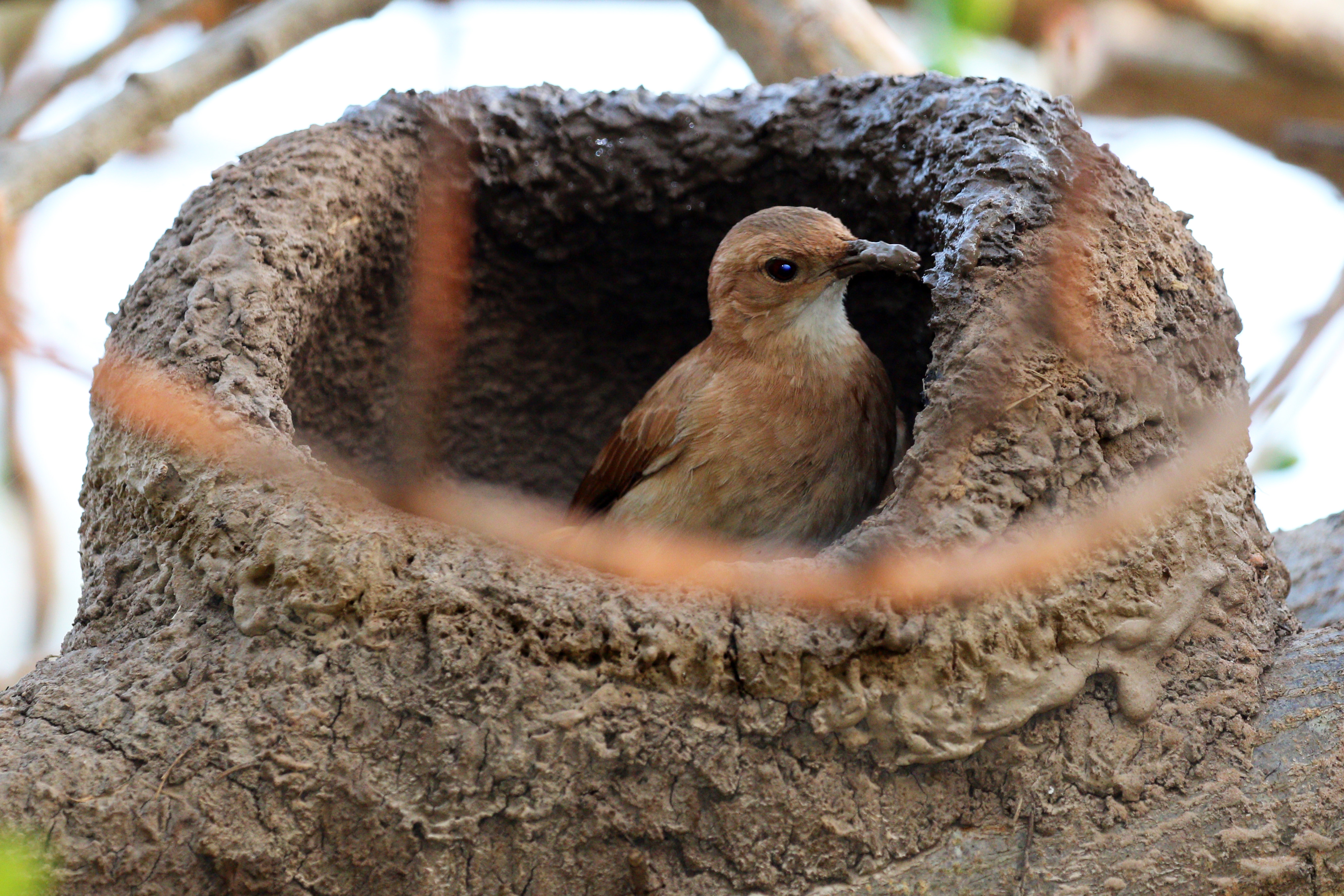 Rufous hornero or Red ovenbird (Furnarius rufus) building nest, the Pantanal, Brazil